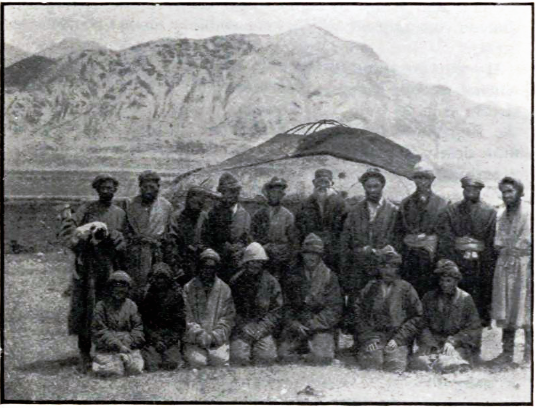 Wakhis and Kirghiz at Dafdar